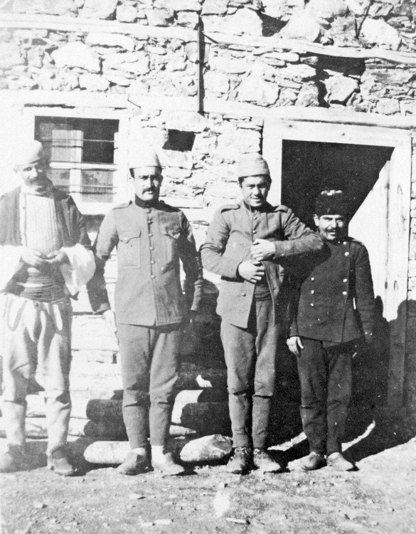 Doda NB9020 76 B Macedonia. Turkish gendarmes in Upper Reka.